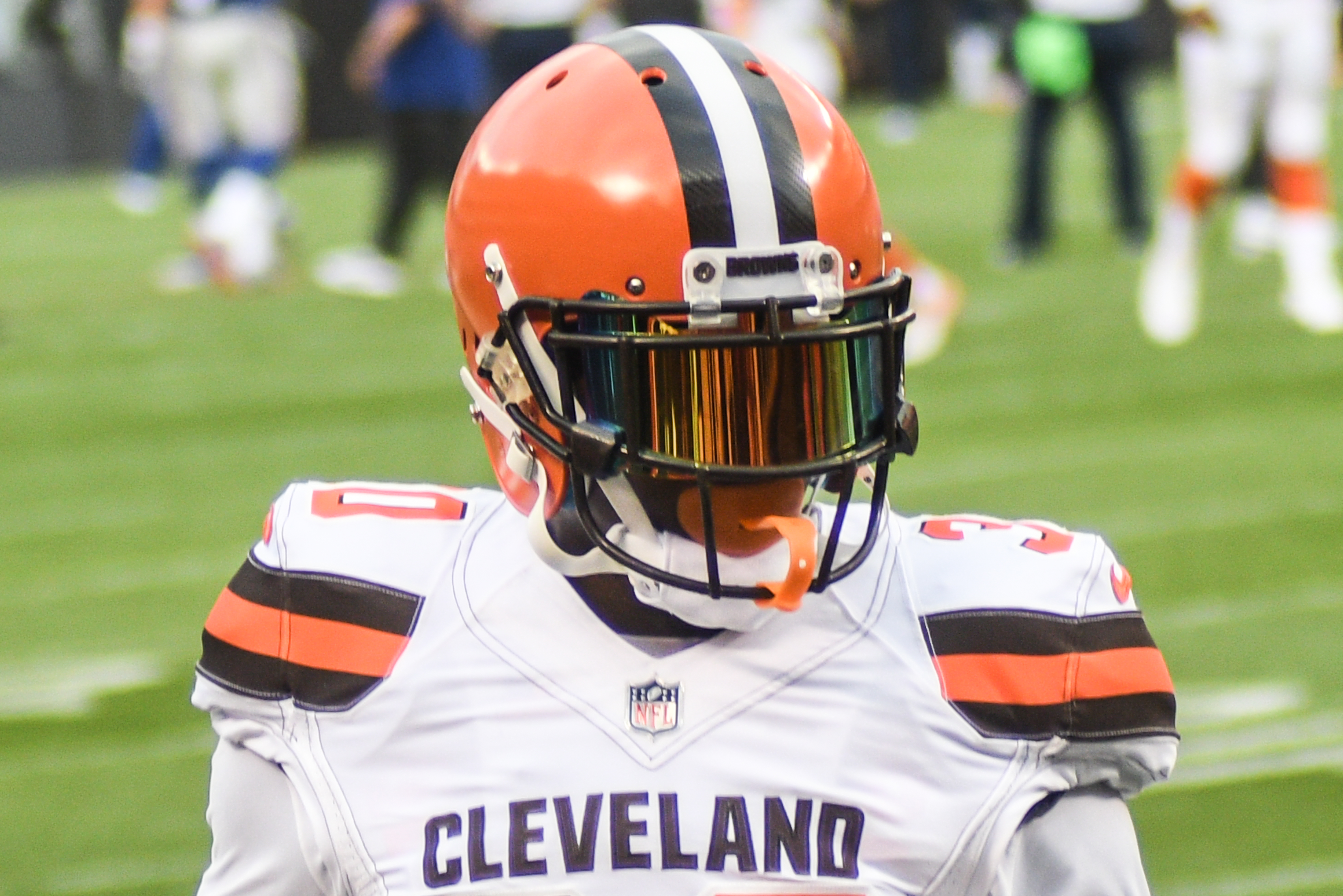 Derrick Kindred of the Cleveland Browns, August 2017